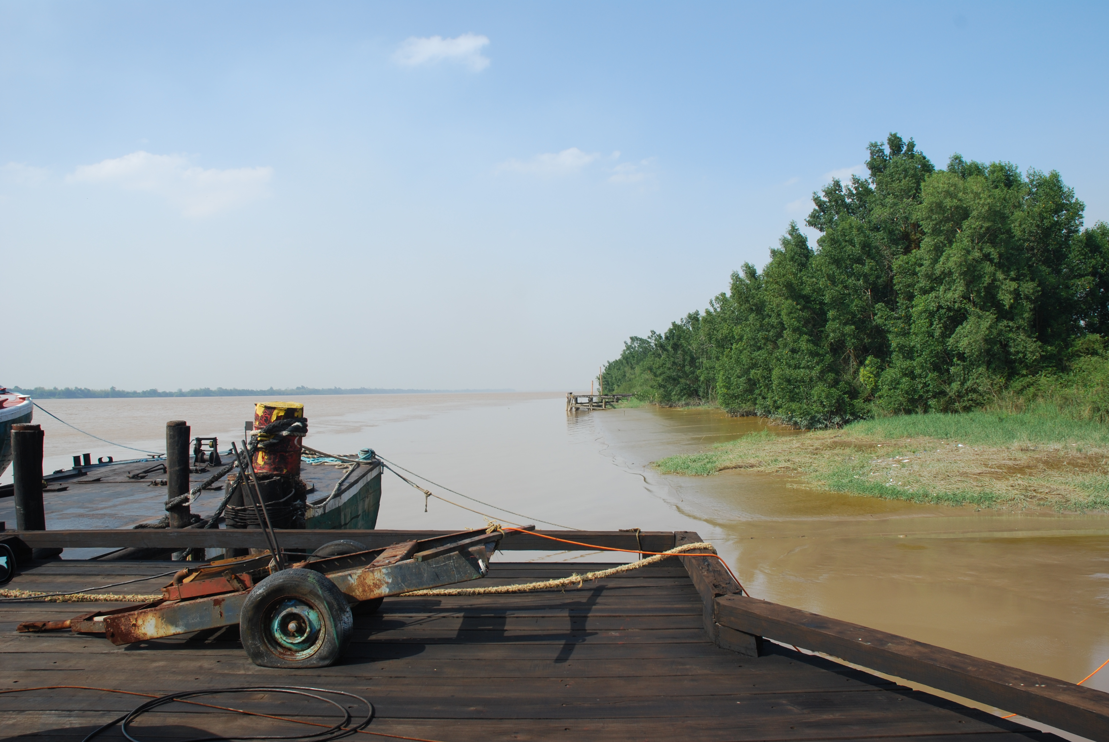 Photo of Demerara river (Guyana)